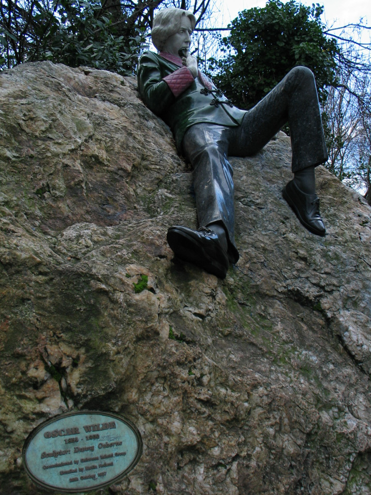 I, Alterego, created the source file and release it under the GFDL.